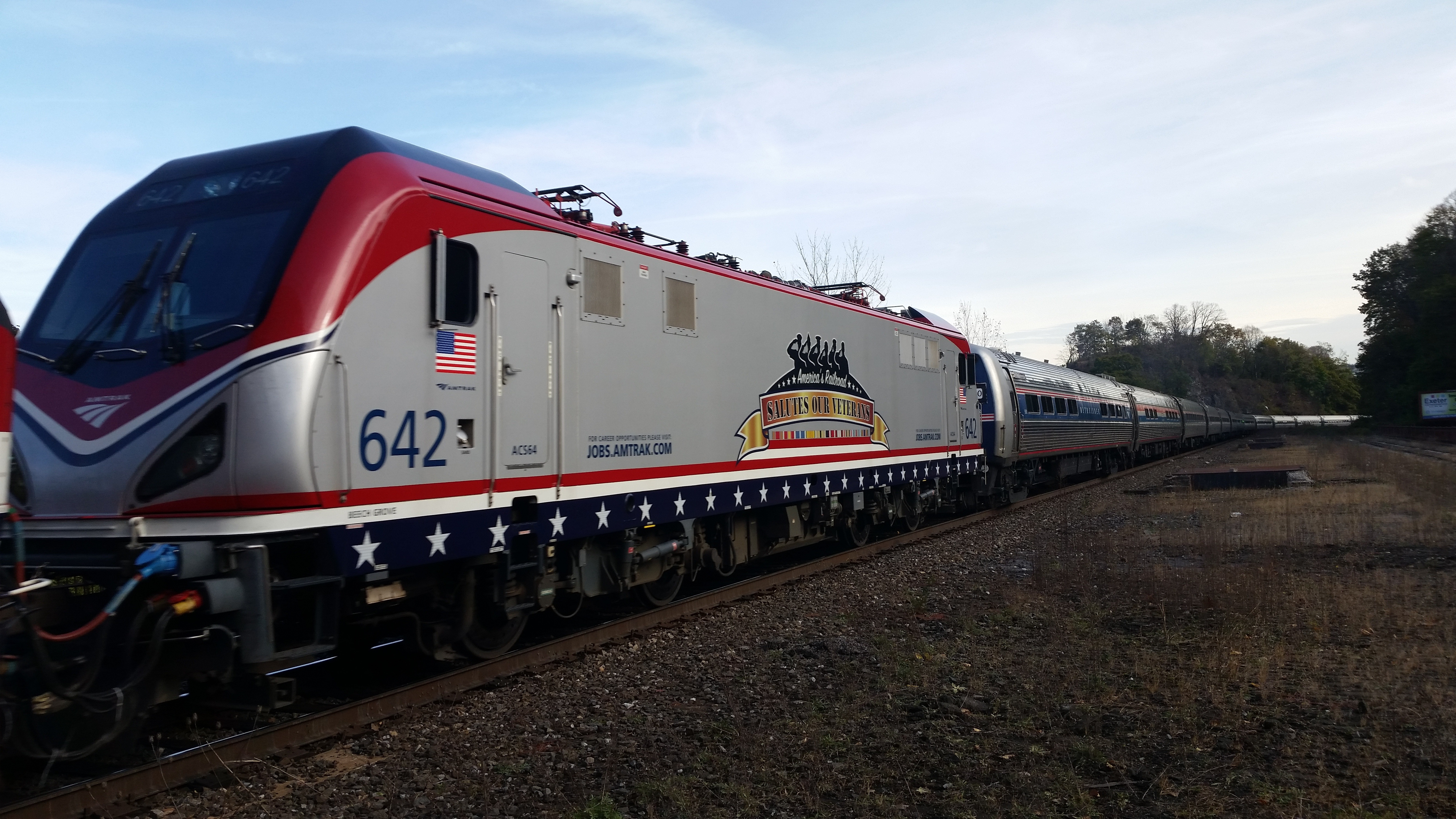 Amtrak ACS-64 #642 on the 2016 Autumn Express, with ex-Metroliner conference car #9800 (used as a crew lounge) behind. The train is at the former Lehigh Valley Railroad station at Easton, Pennsylvania.